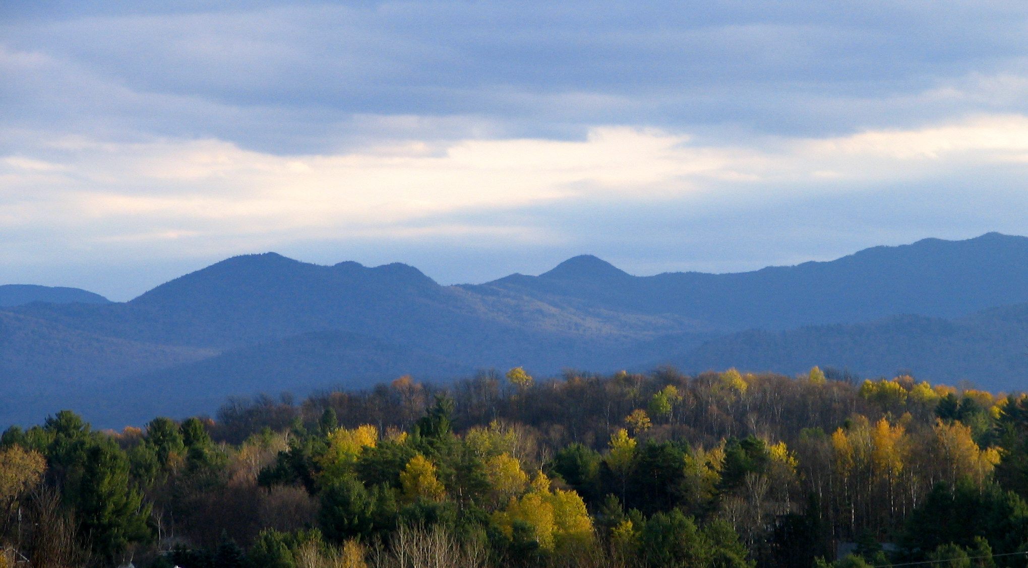 High Peaks from North Country Community College. Taken by User:Mwanner, 4 November, 2007.